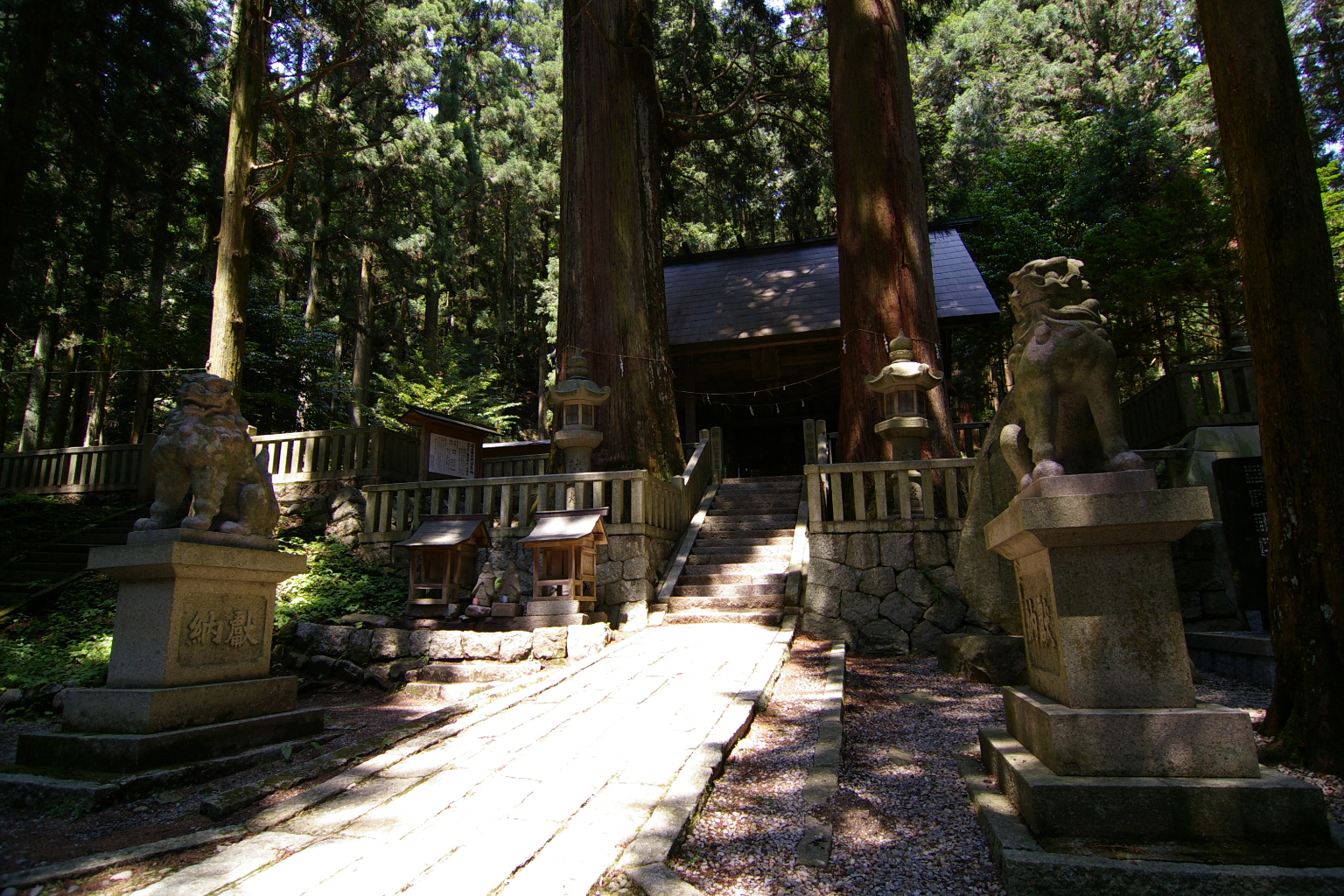 Ena Jinja (Nakatsugawa City, Gifu Pref, Japan)